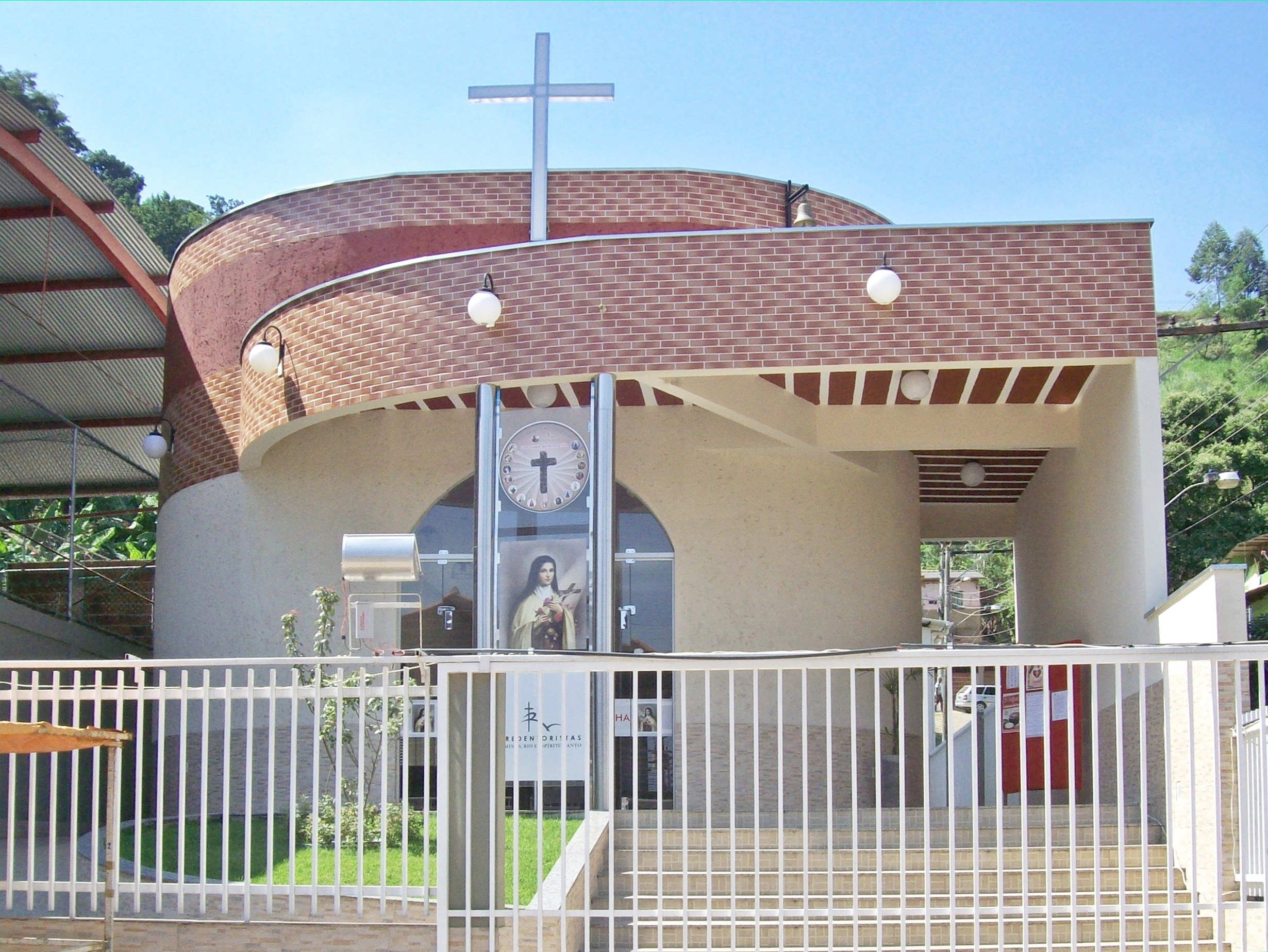 Front of the Saint Theresa Church in the Santa Terezinha neighborhood, in Coronel Fabriciano, Minas Gerais, Brazil.